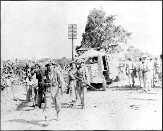 Israeli soldiers in either Lydda (Lod) or Ramla, July 1948. This work or image is now in the public domain because its term of copyright has expired in Israel (details). According to Israel's copyright statute from 2007 (translation), a work is released to the public domain on 1 January of the 71st year after the author's death (paragraph 38 of the 2007 statute) with the following exceptions: A photograph taken on 24 May 2008 or earlier — the old British Mandate act applies, i.e. on 1 January of the 51st year after the creation of the photograph (paragraph 78(i) of the 2007 statute, and paragraph 21 of the old British Mandate act). If the copyrights are owned by the State, not acquired from a private person, and there is no special agreement between the State and the author — on 1 January of the 51st year after the creation of the work (paragraphs 36 and 42 in the 2007 statute). See also category: PD Israel & British Mandate.